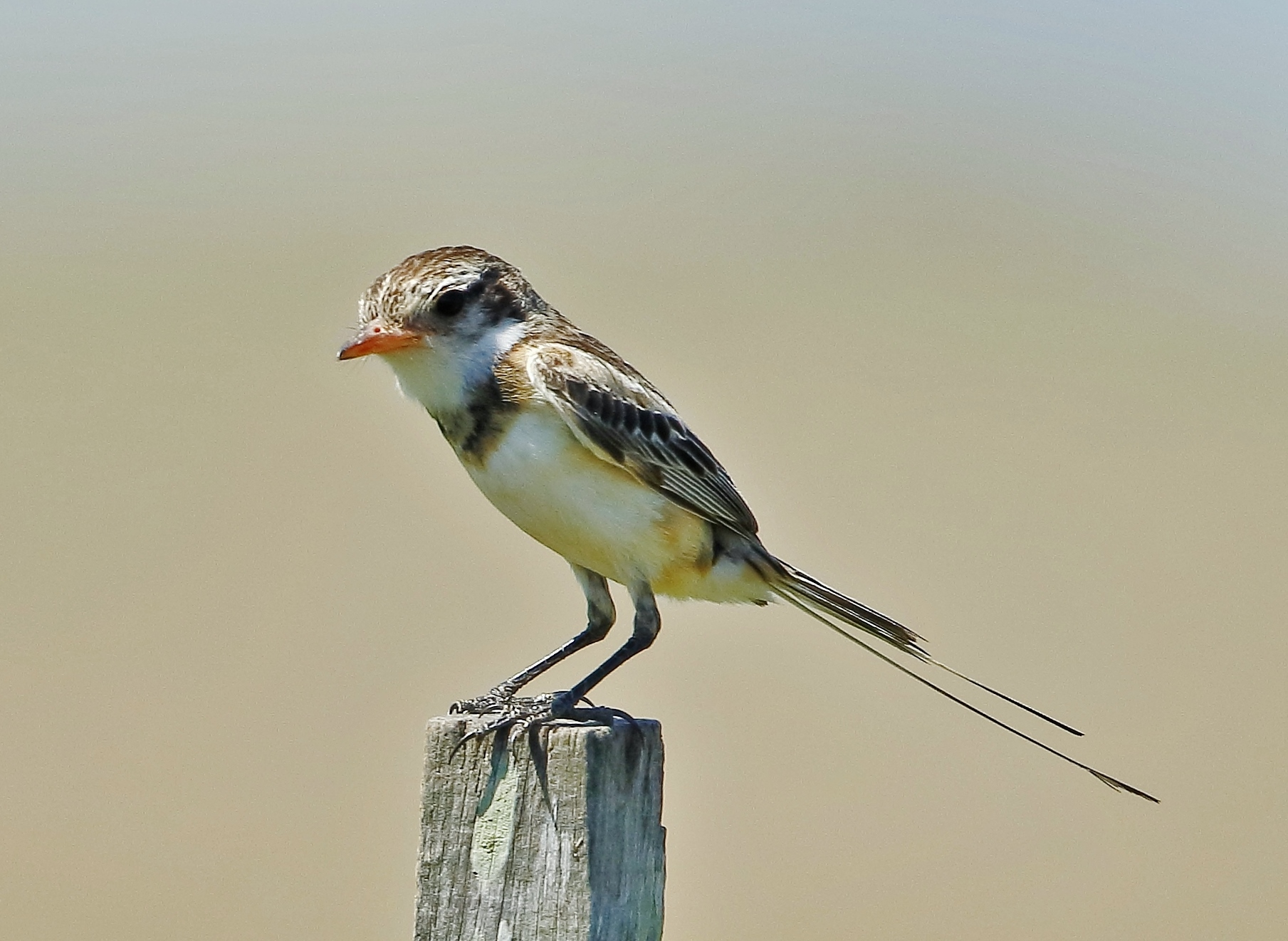 Strange-tailed tyrant (female) at Iberá marshes - Corrientes - Argentina